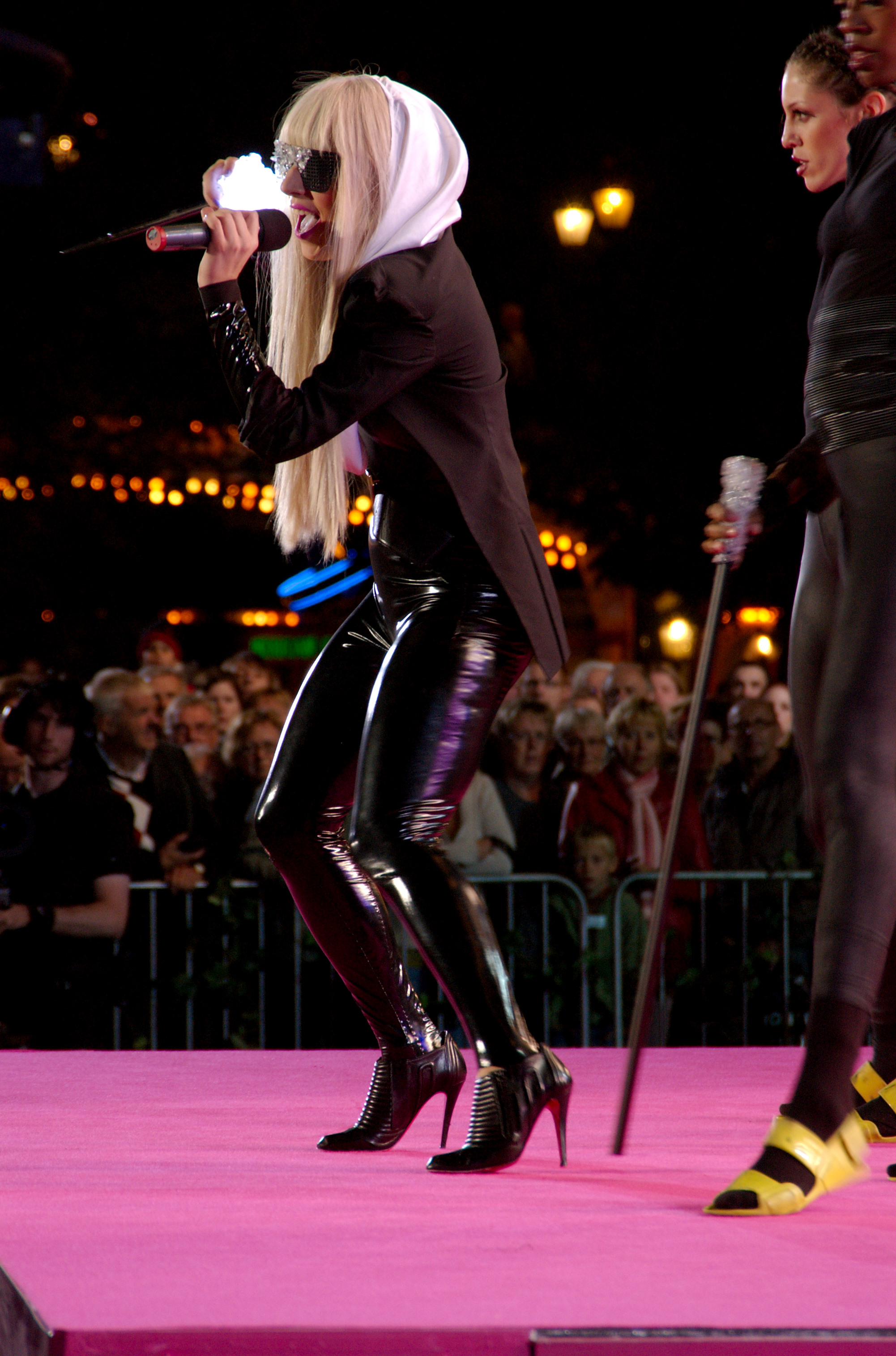 Lady Gaga performing at Gröna Lund, Stockholm, 2008